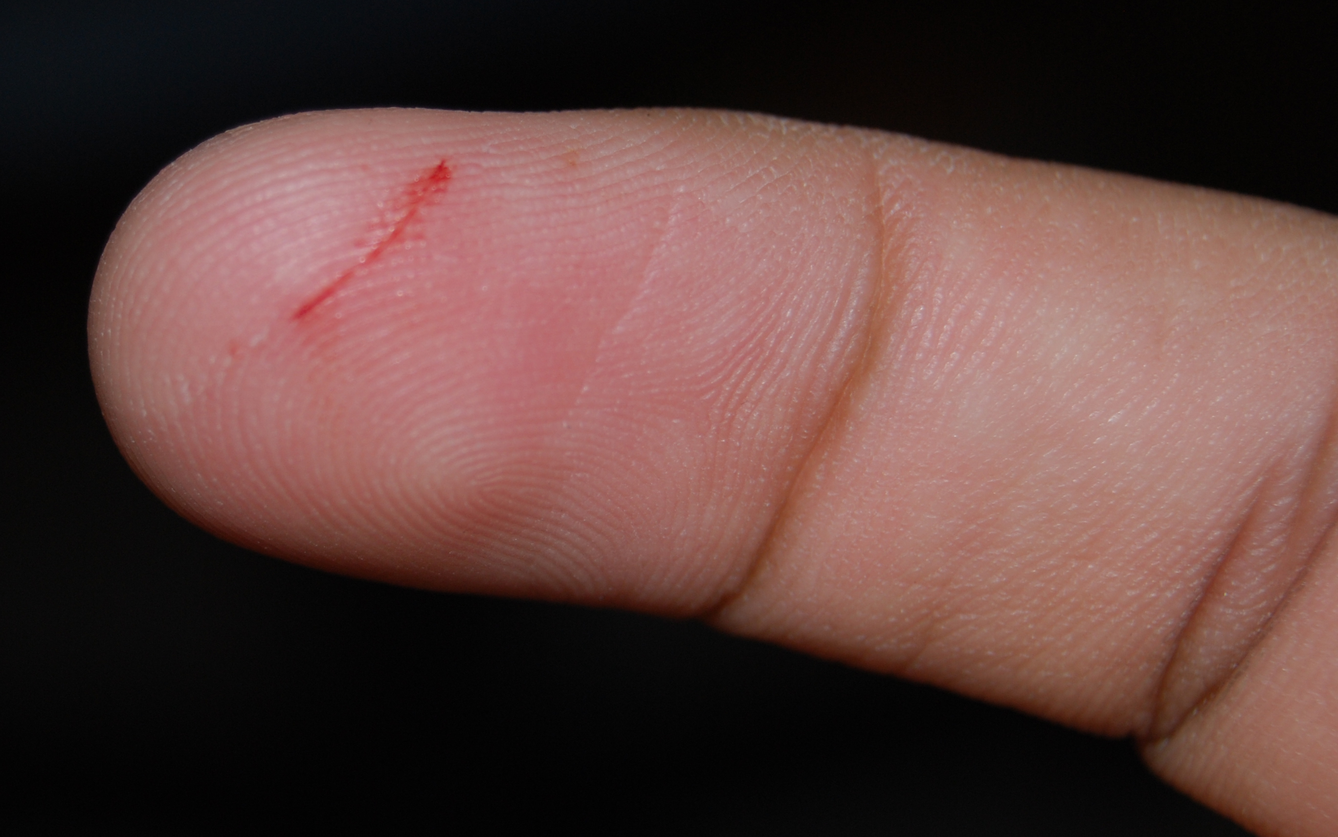 I just noticed I have a bad habit of posting 365 pictures with out my face in it. Starting now I'm gonna try not to do that lol. Why can't paper edges be soft? Gah.Oww Papercut 14/365